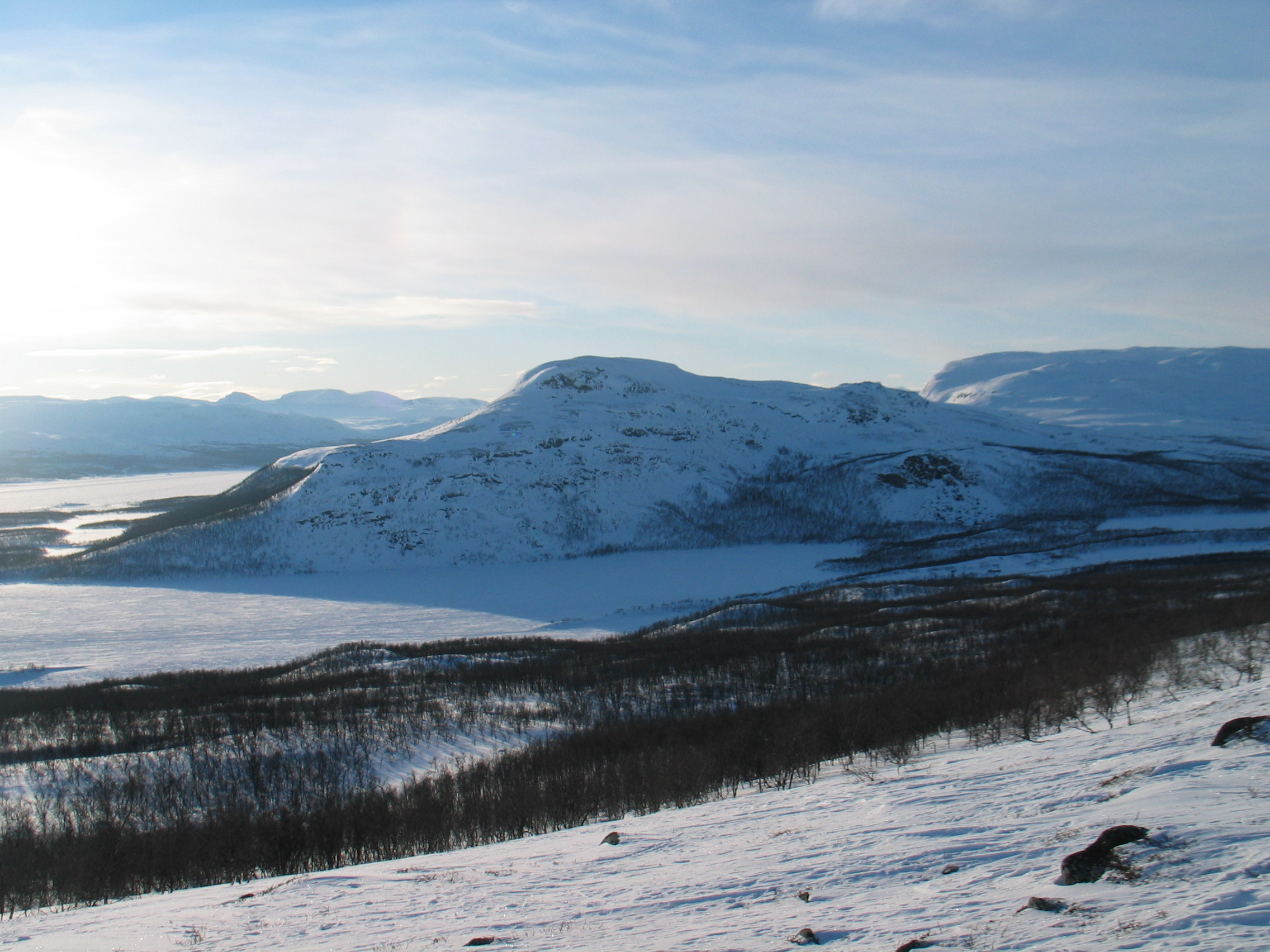 Pikku-Malla 738 m in Malla Strict Nature Reserve.